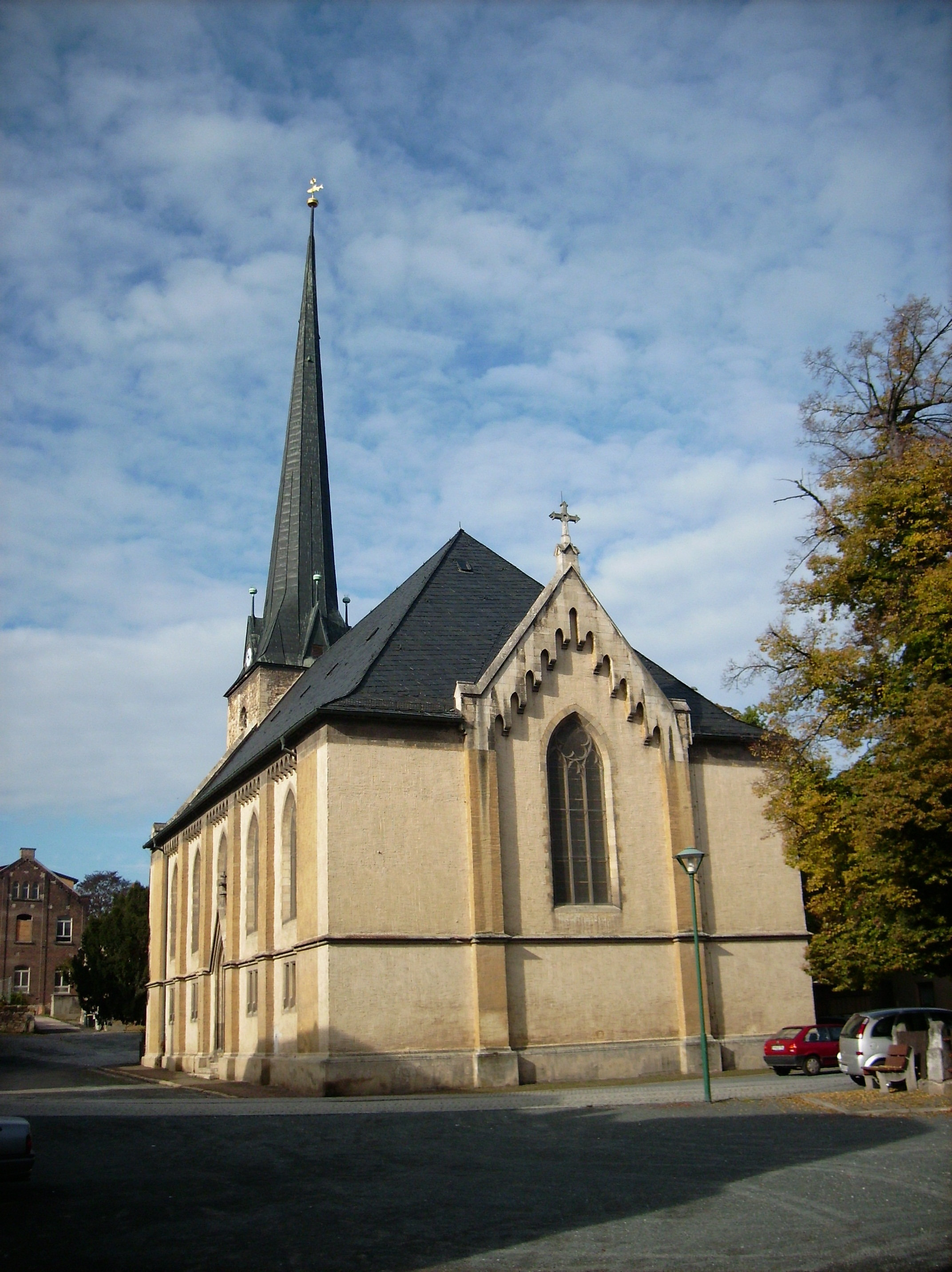 Trinity Church in Camburg (Dornburg-Camburg, district of Saale-Holzland-Kreis, Thuringia)